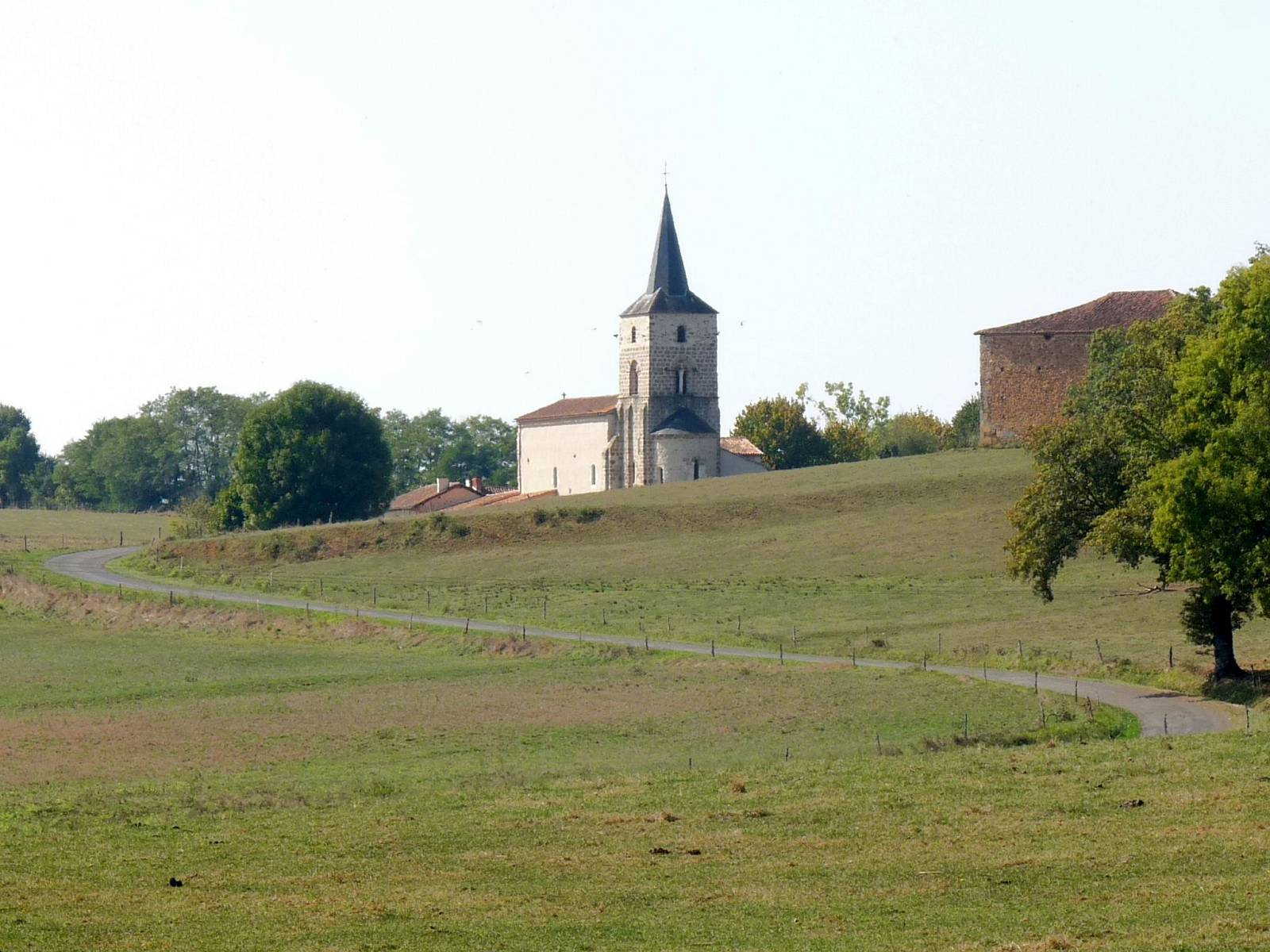 church of Orgedeuil, Charente, SW France